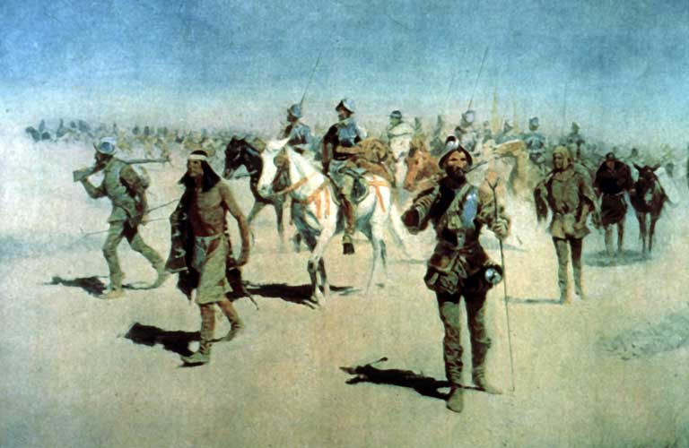 "Coronado sets out to the north" — oil painting by Frederic Remington. Spanish Francisco Vázquez de Coronado Expedition (1540 - 1542), passing through Colonial New Mexico, to the Great Plains.